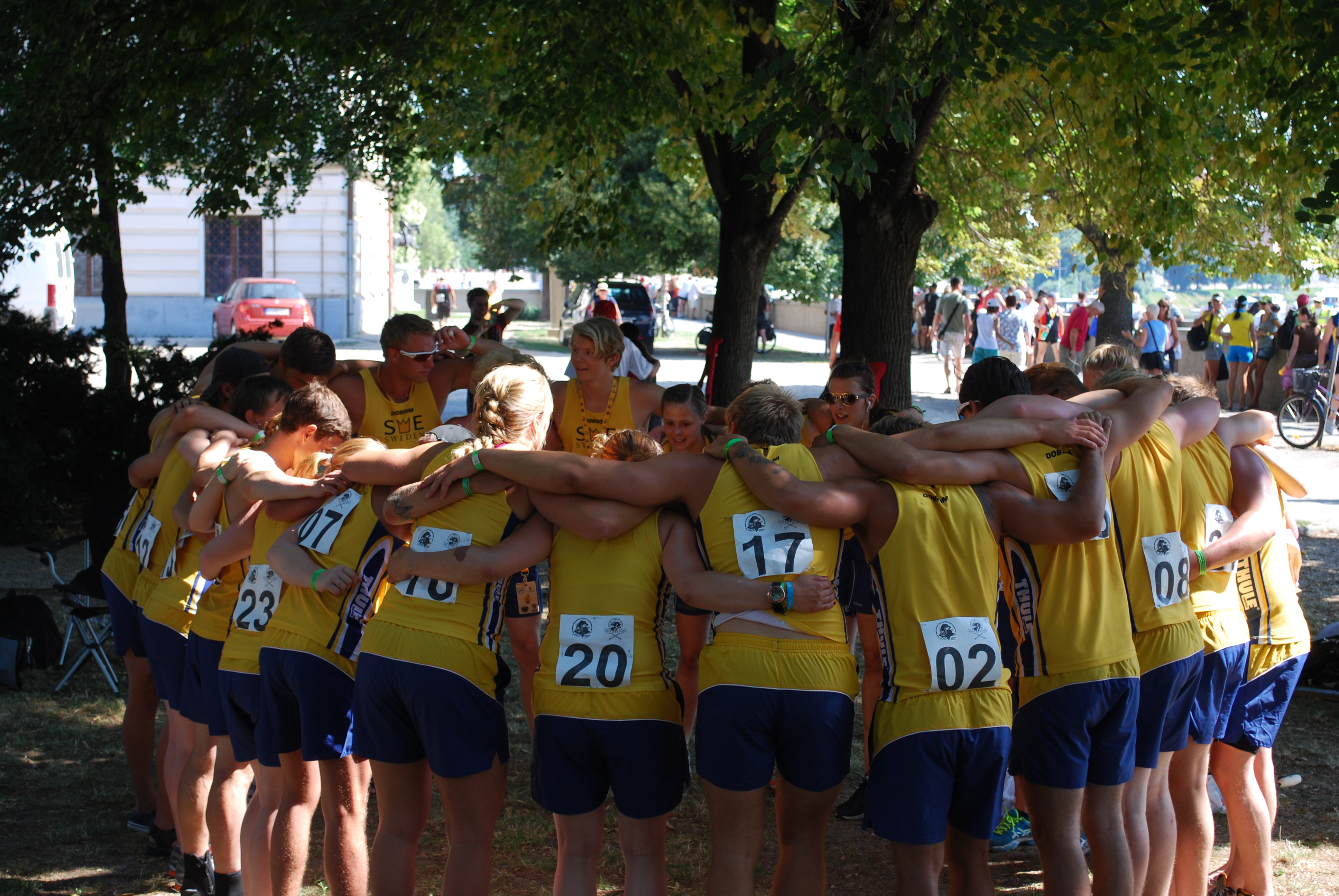 (IDBF World Dragon Boat Racing Championships 2013 in Szeged, Hungary. Swedish U24 team before entering the 2000 meter races.)